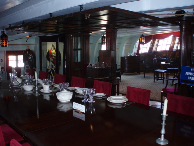 Dining table in Officers' Mess of HMS Victory Still used for special occasions as it is still, technically, a serving warship.